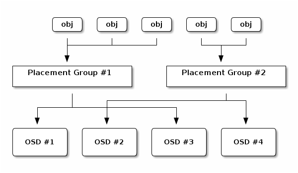 Ceph's architecture logic of mapping PGs to OSDs